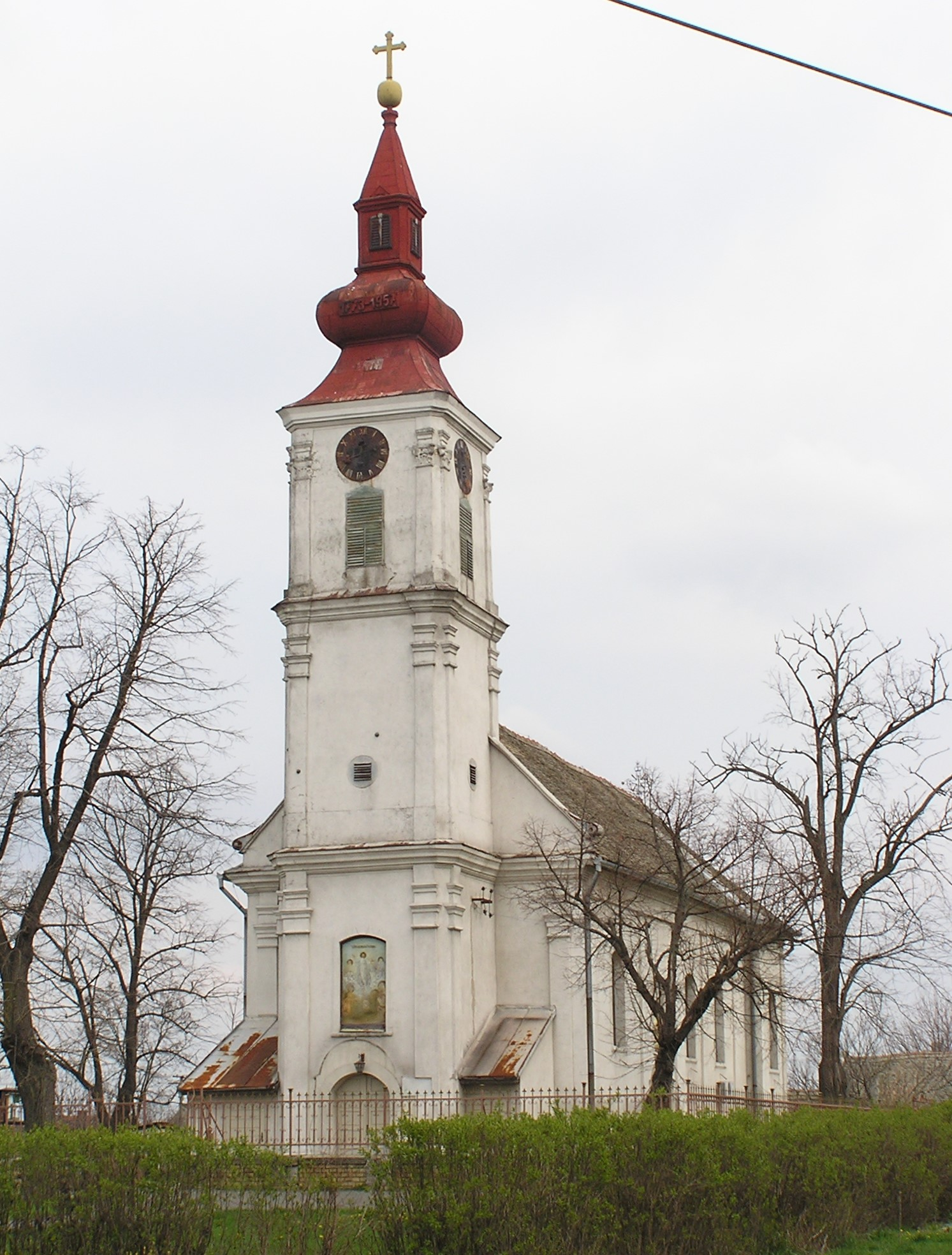 Church of Musts of Saint Nicholas in Bačko Petrovo Selo- general look